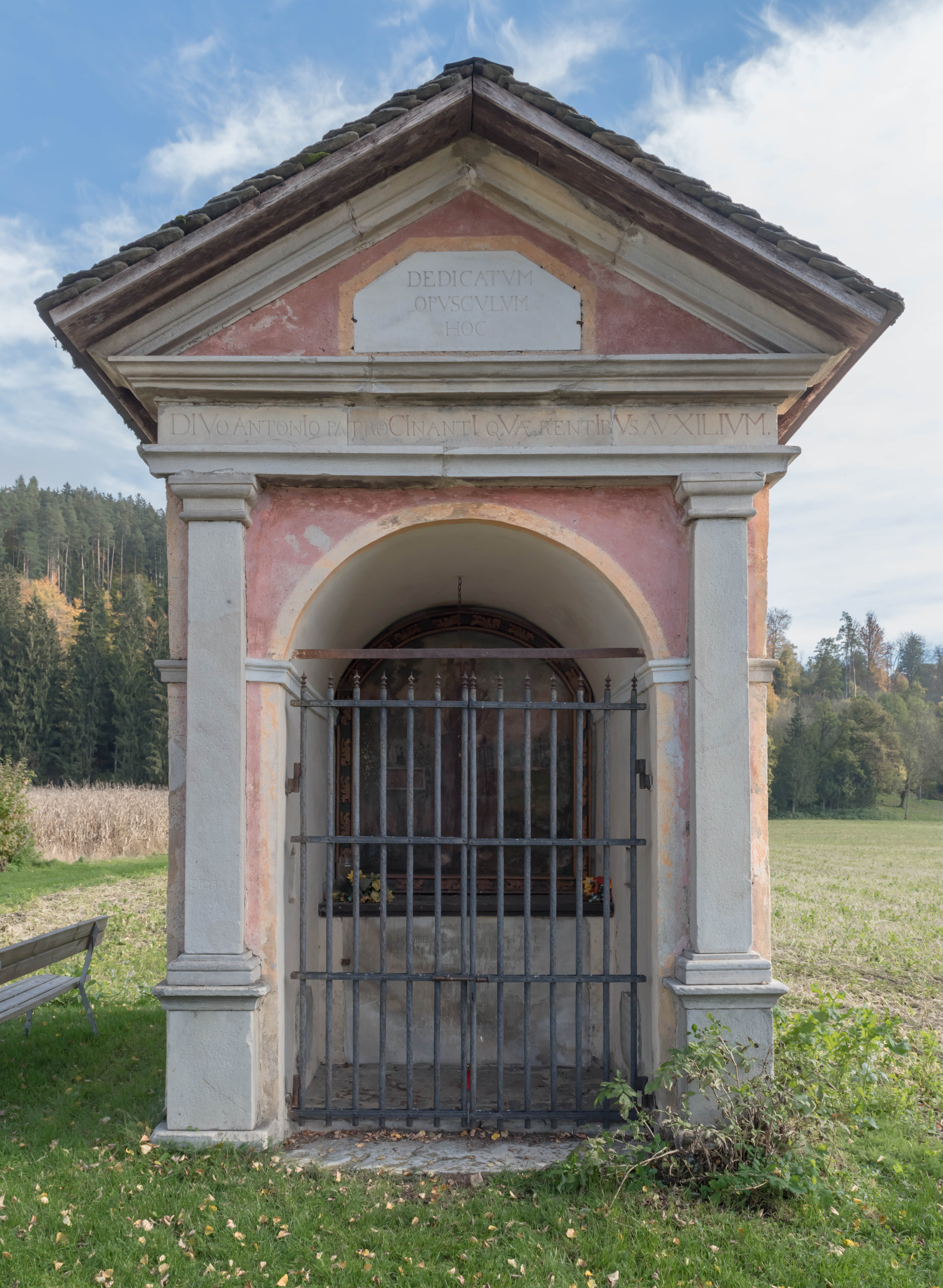 Wayside chapel «Prunnerkreuz» at Virunum, Zollfeld, market town Maria Saal, district Klagenfurt Land, Carinthia, Austria, EU